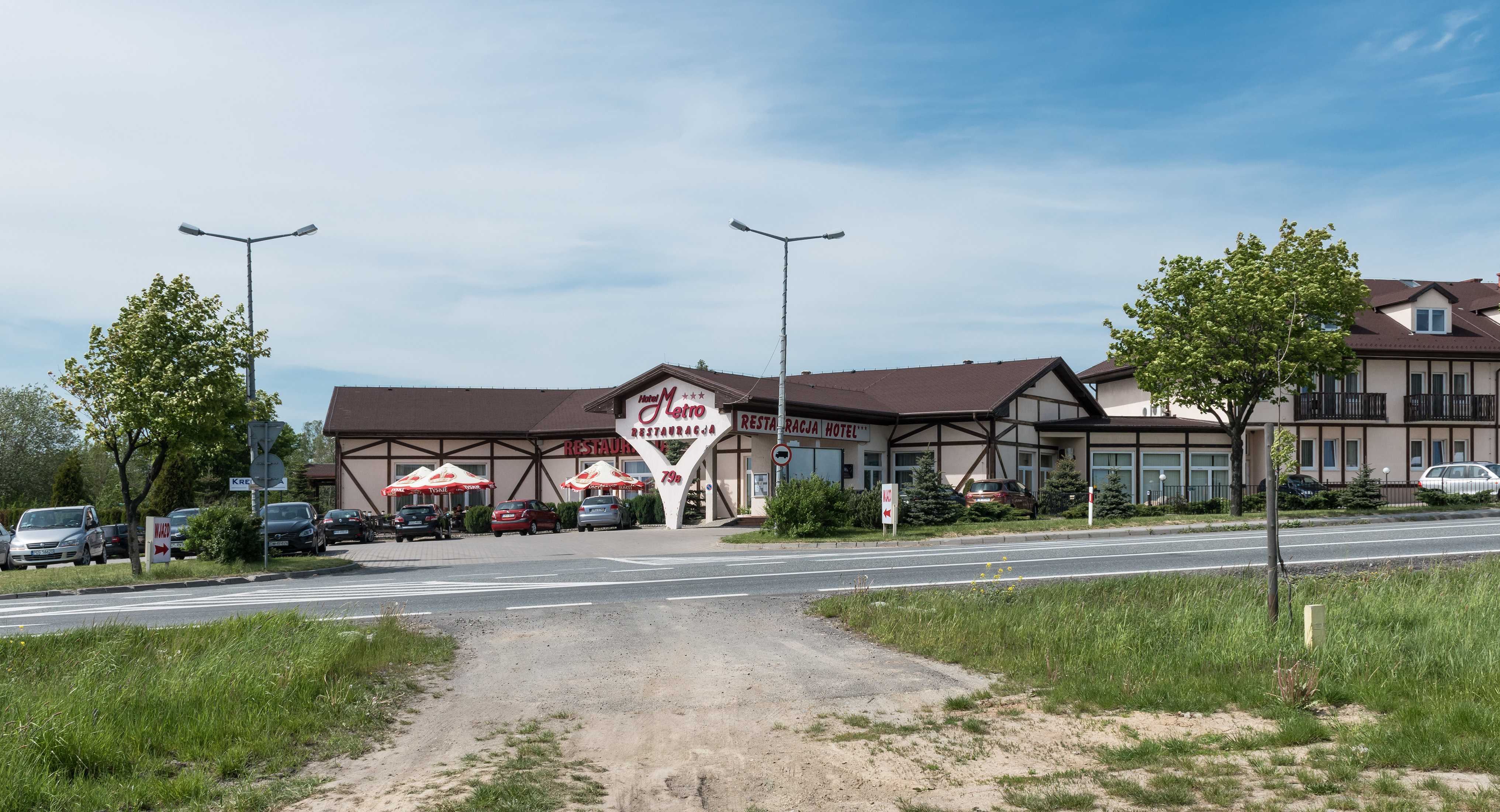 Metro inn in Bguszyn